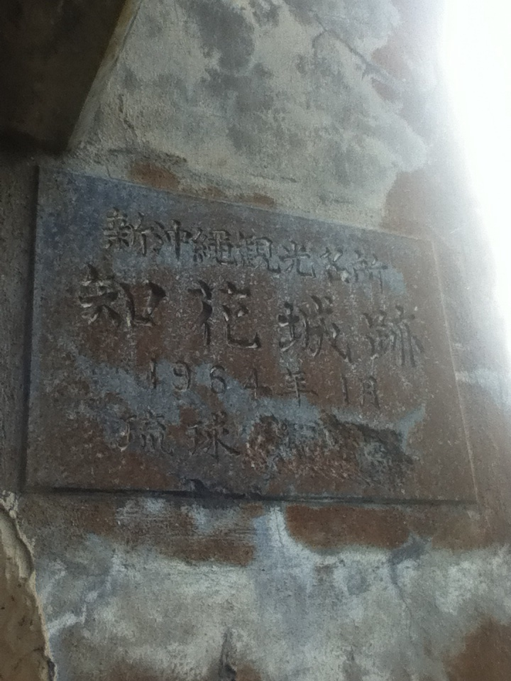 Monument plaque for Chibana Castle.